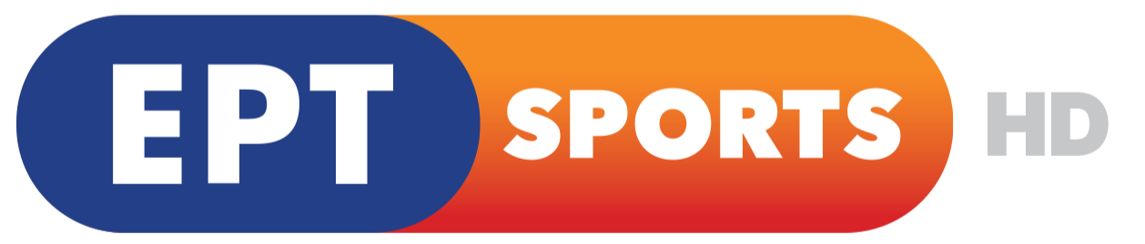 ERT SPORTS HD LOGO